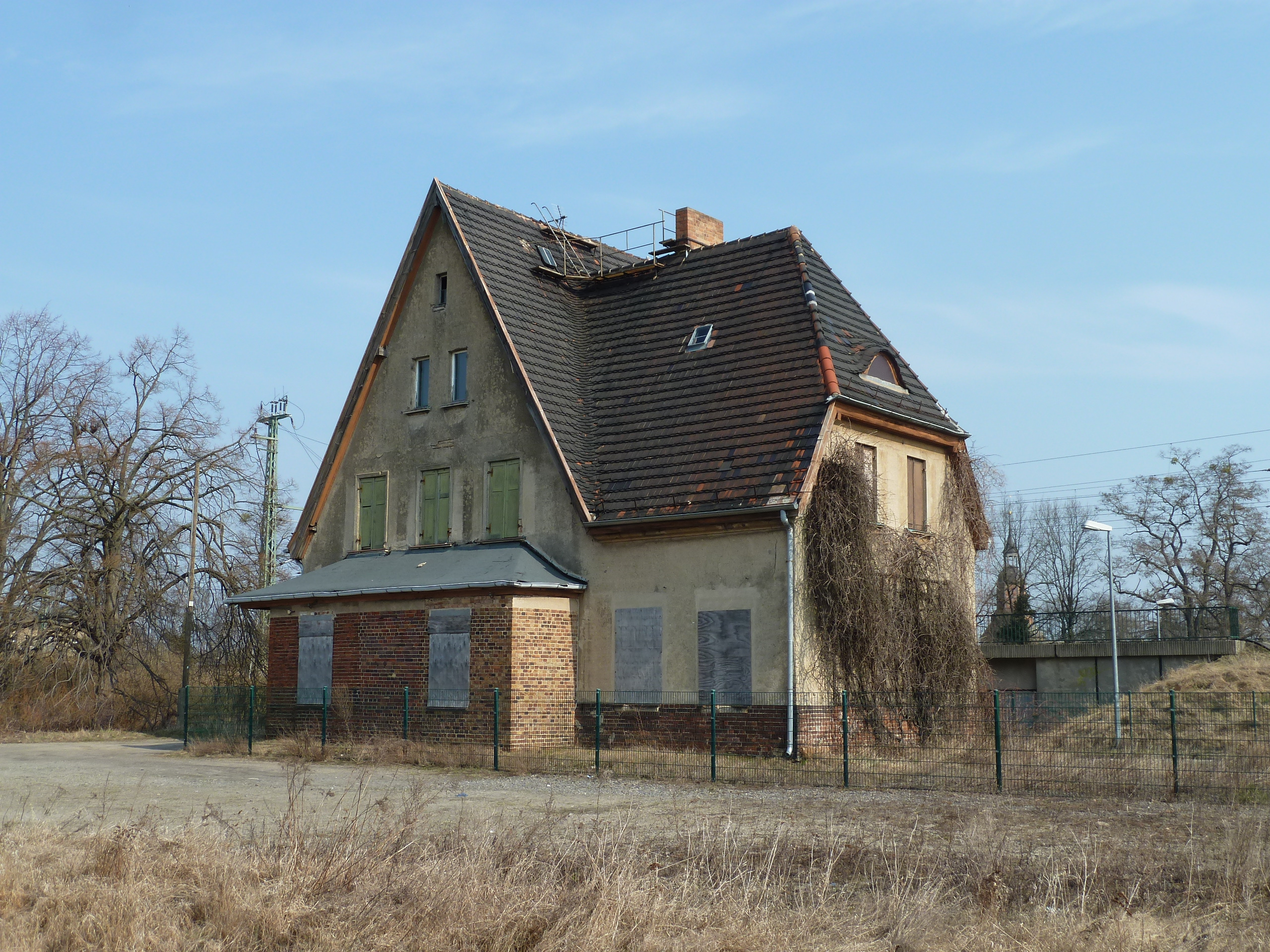 Station building of former Dahme-Uckro-Eisenbahn in Uckro (today Luckau-Uckro), cultural heritage, view from West